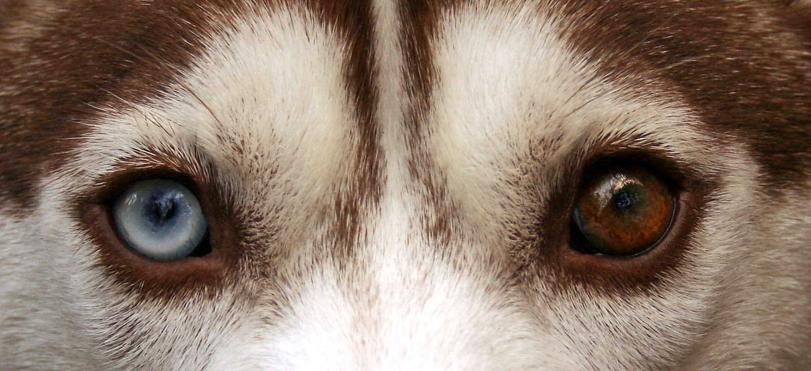 A brown Siberian Husky exhibiting heterochromia.